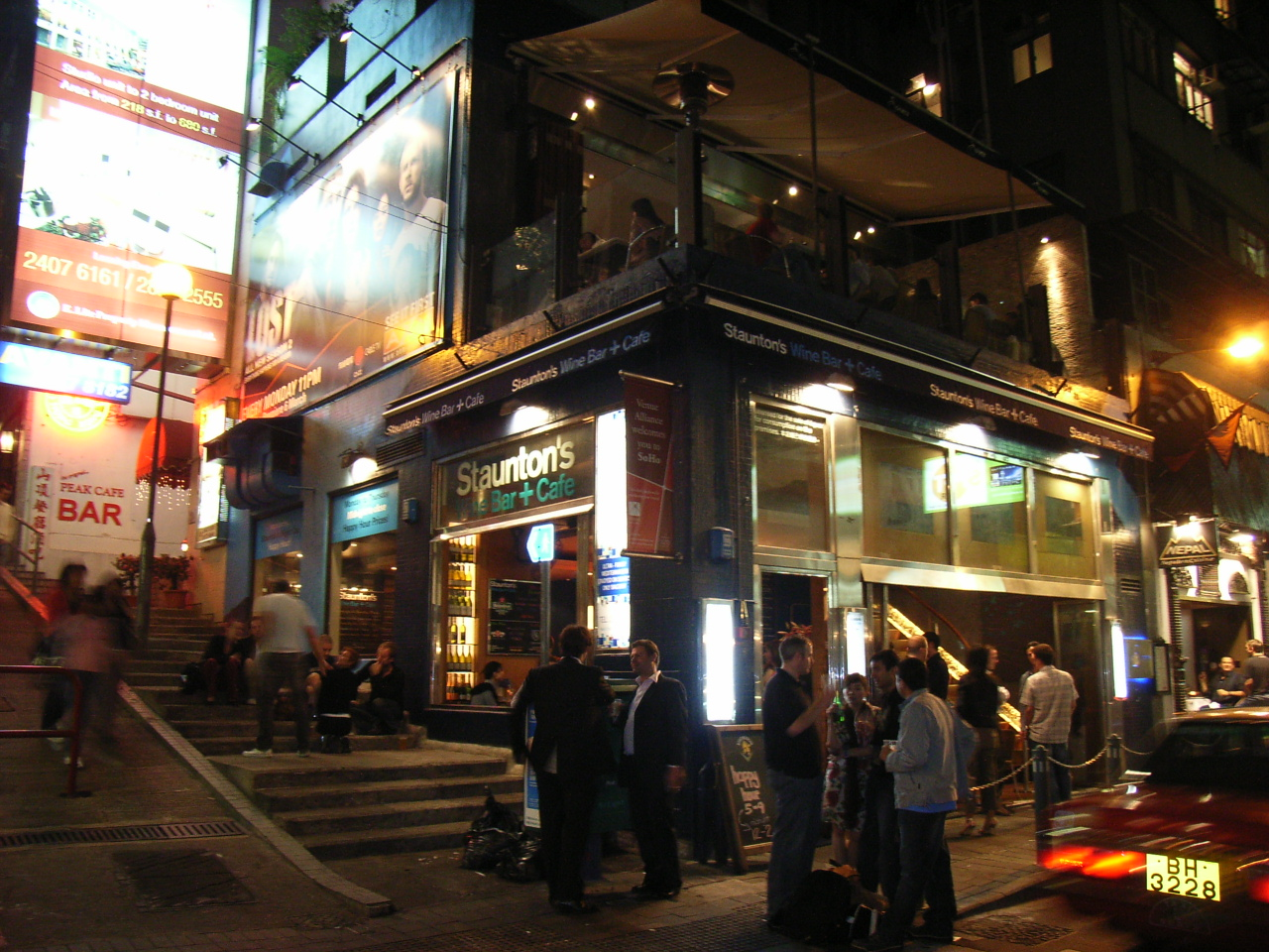 中環蘇豪區越夜越美麗 - Night at the SOHO, Central, Hong Kong